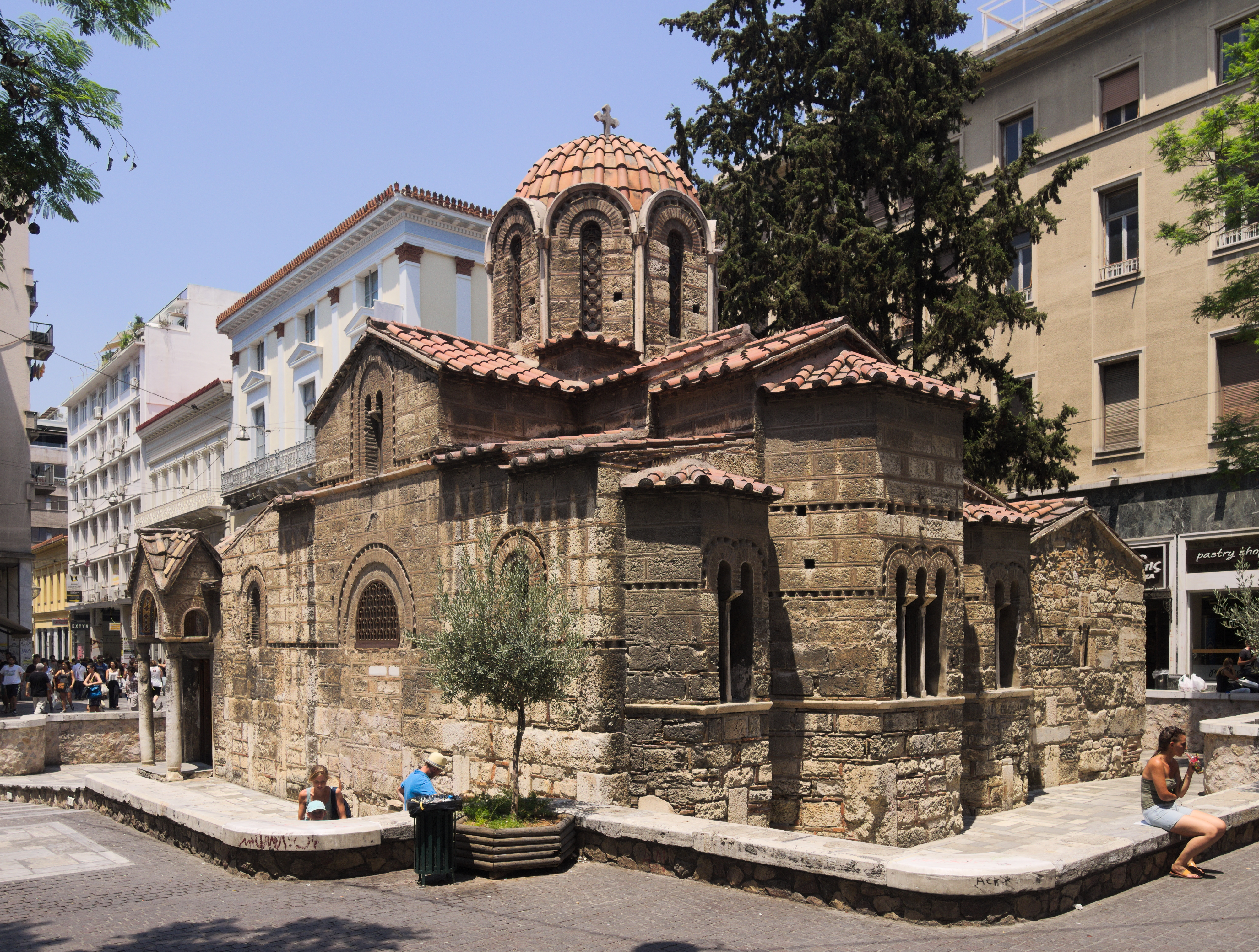 The byzantine church of Panayia Kapnikarea, at Ermou street, Athens.